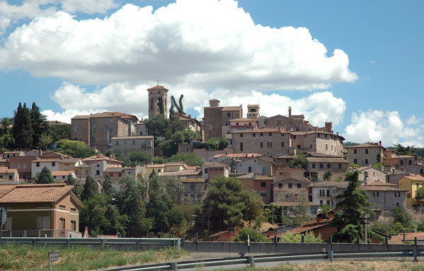 oooooooooooooooooooooooooooooooooooo